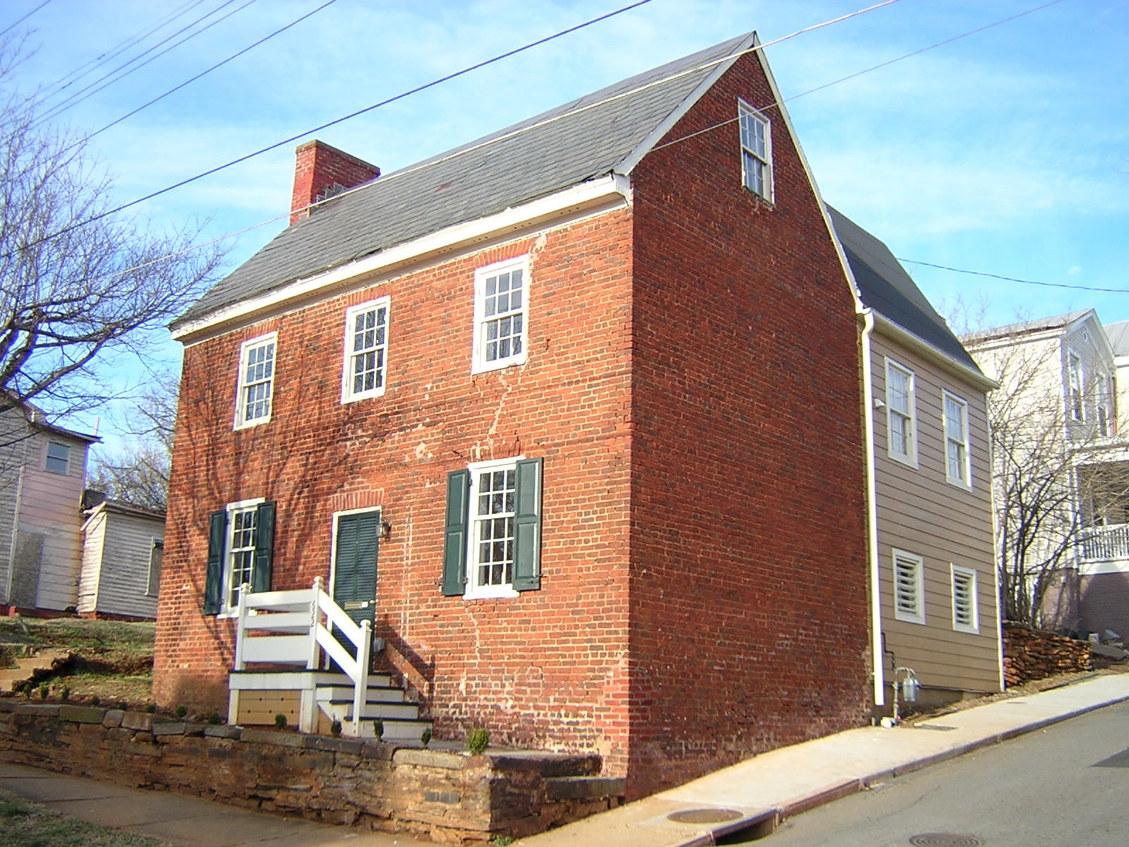 Dicks-Elliott House, Lynchburg, VA